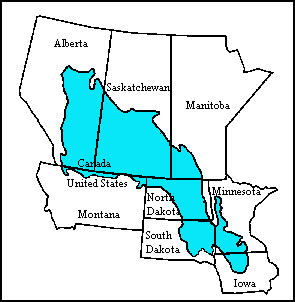 Map of the Prairie Pothole Region of North America. From the US Geological Survey